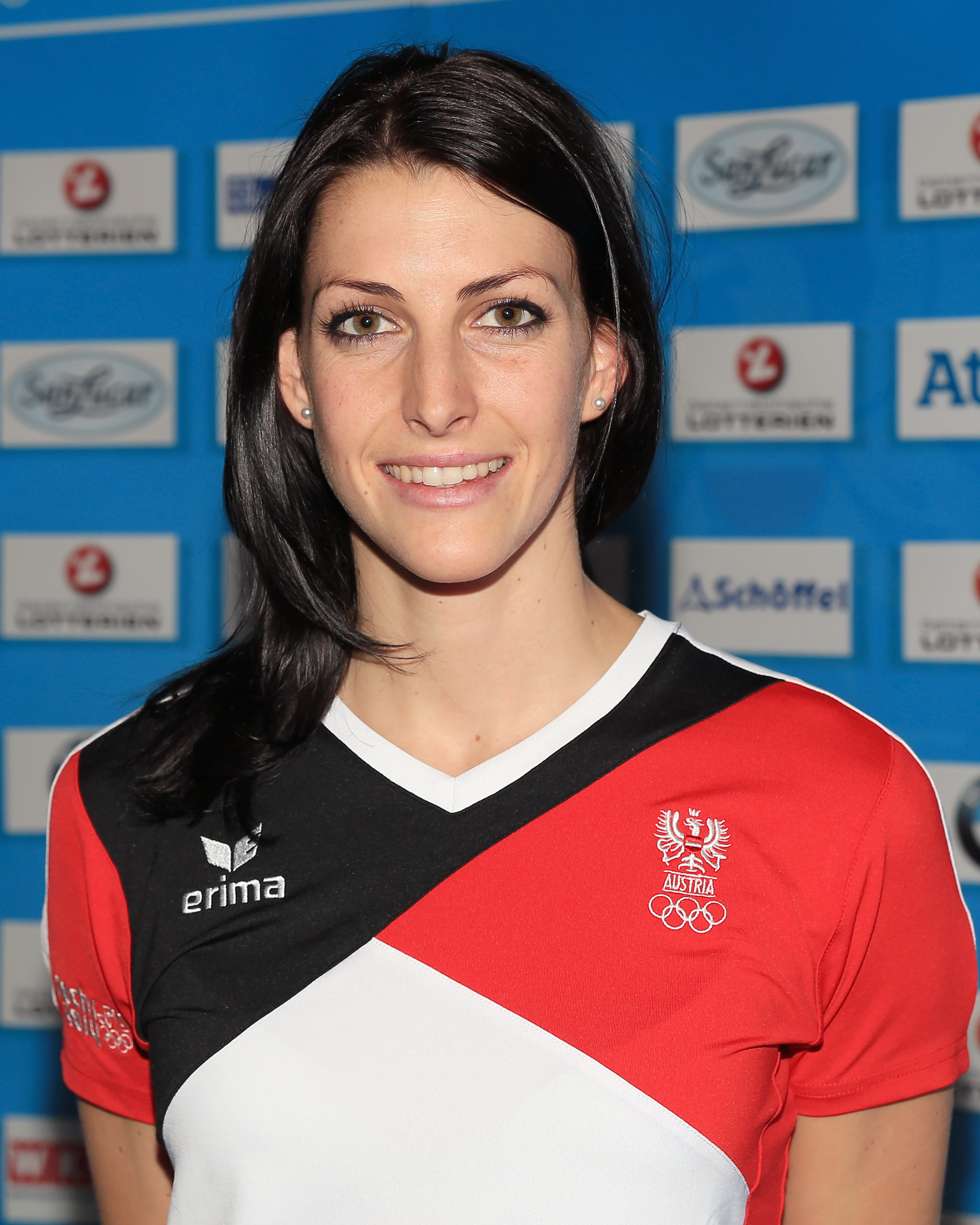 Janine Flock (skeleton) at the outfitting of the Austrian team for the 2014 Winter Olympics (Hotel Marriott in Vienna, Austria.